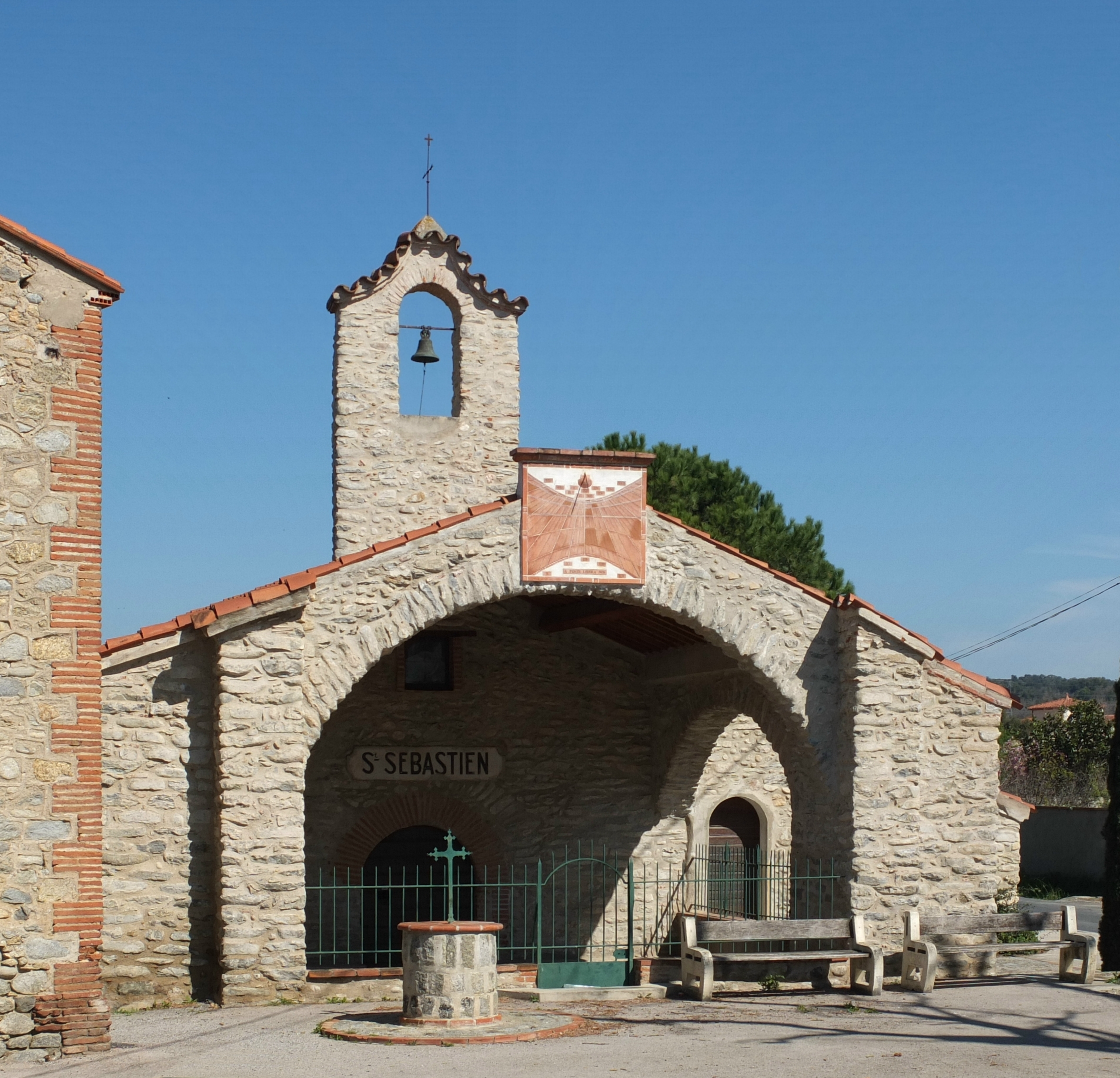 Saint-Jean-Pla-de-Corts, Chapel Saint-Sébastien (Exp. S)